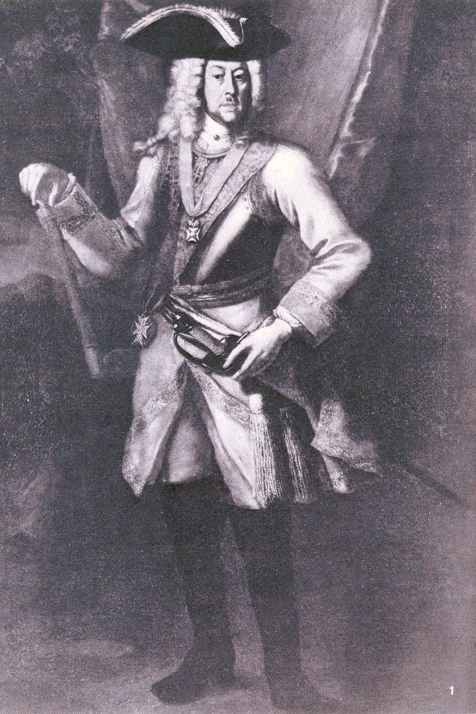 Portrait of Margrave William of Bayreuth (1678-1726)